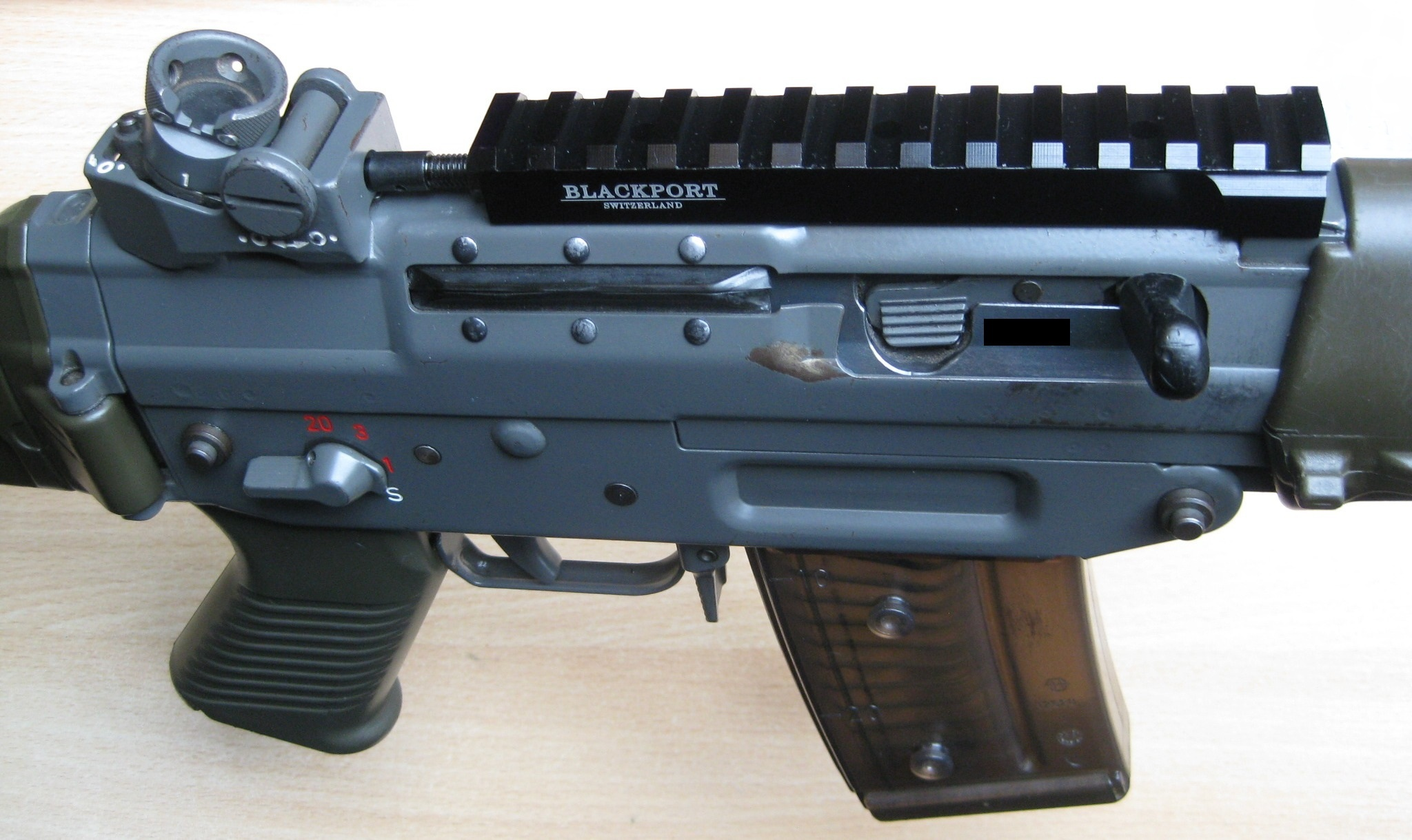 SG 550 with MIL-STD-1913-Rail on top.